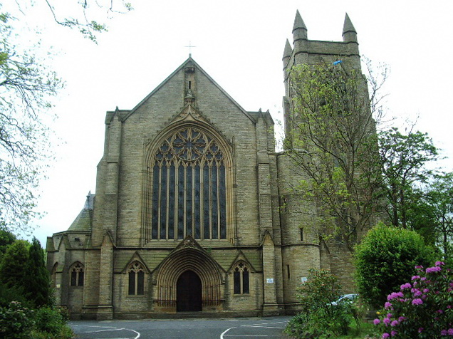 Parish of St Alban's and The Good Shepherd